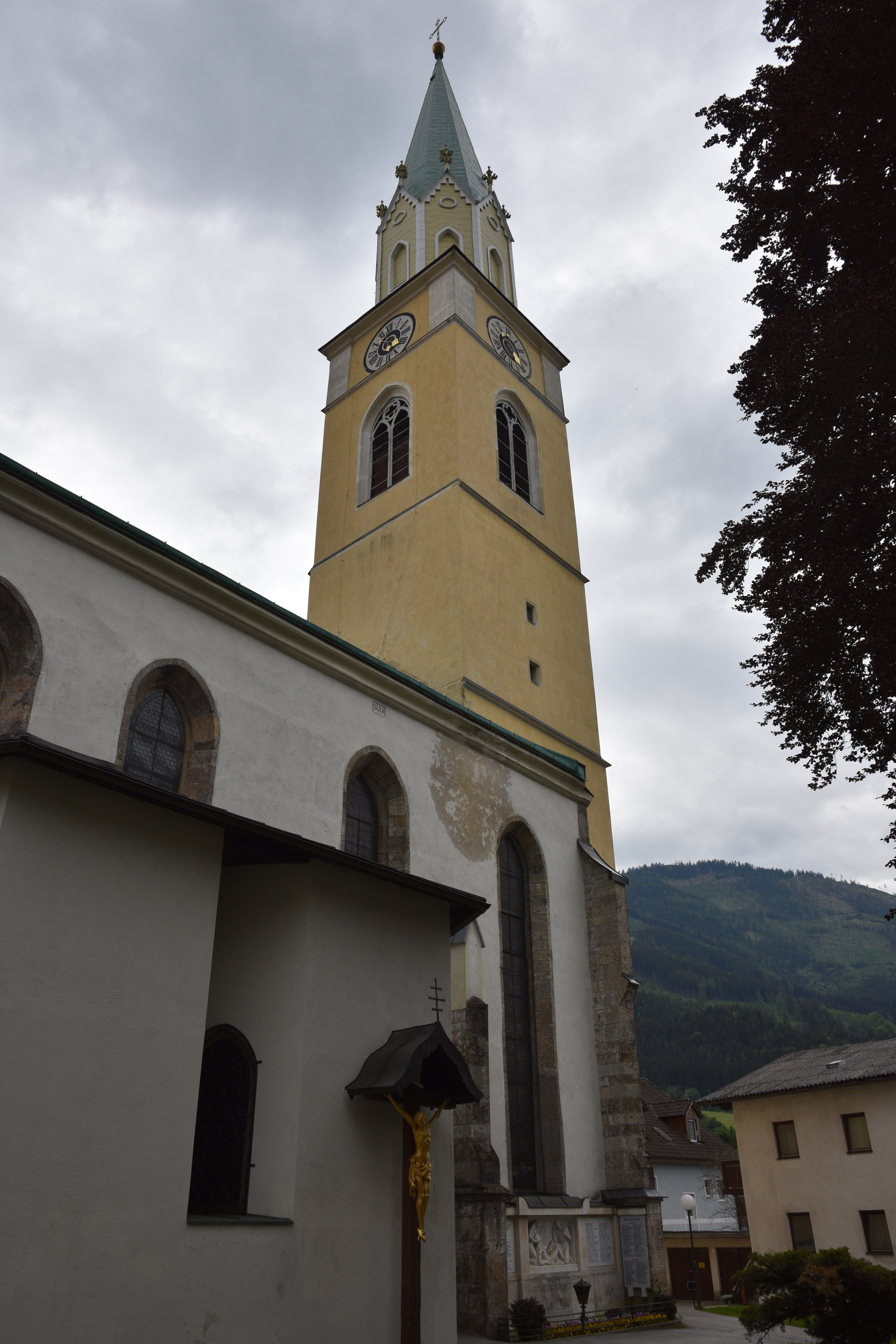 Church Stadtpfarrkirche St. Nikolaus Rottenmann